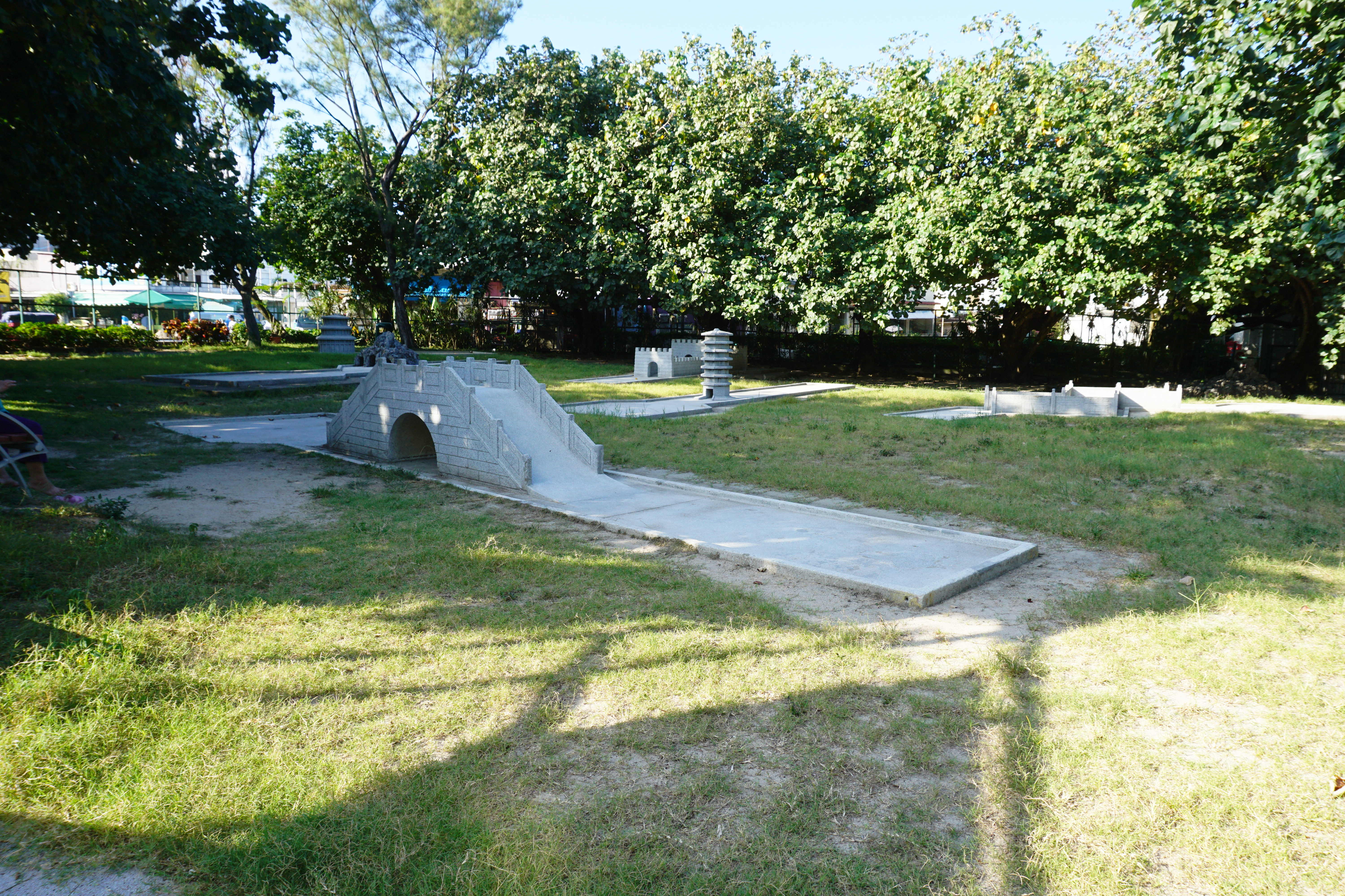 Mini Golf Course in Shek O, Hong Kong.